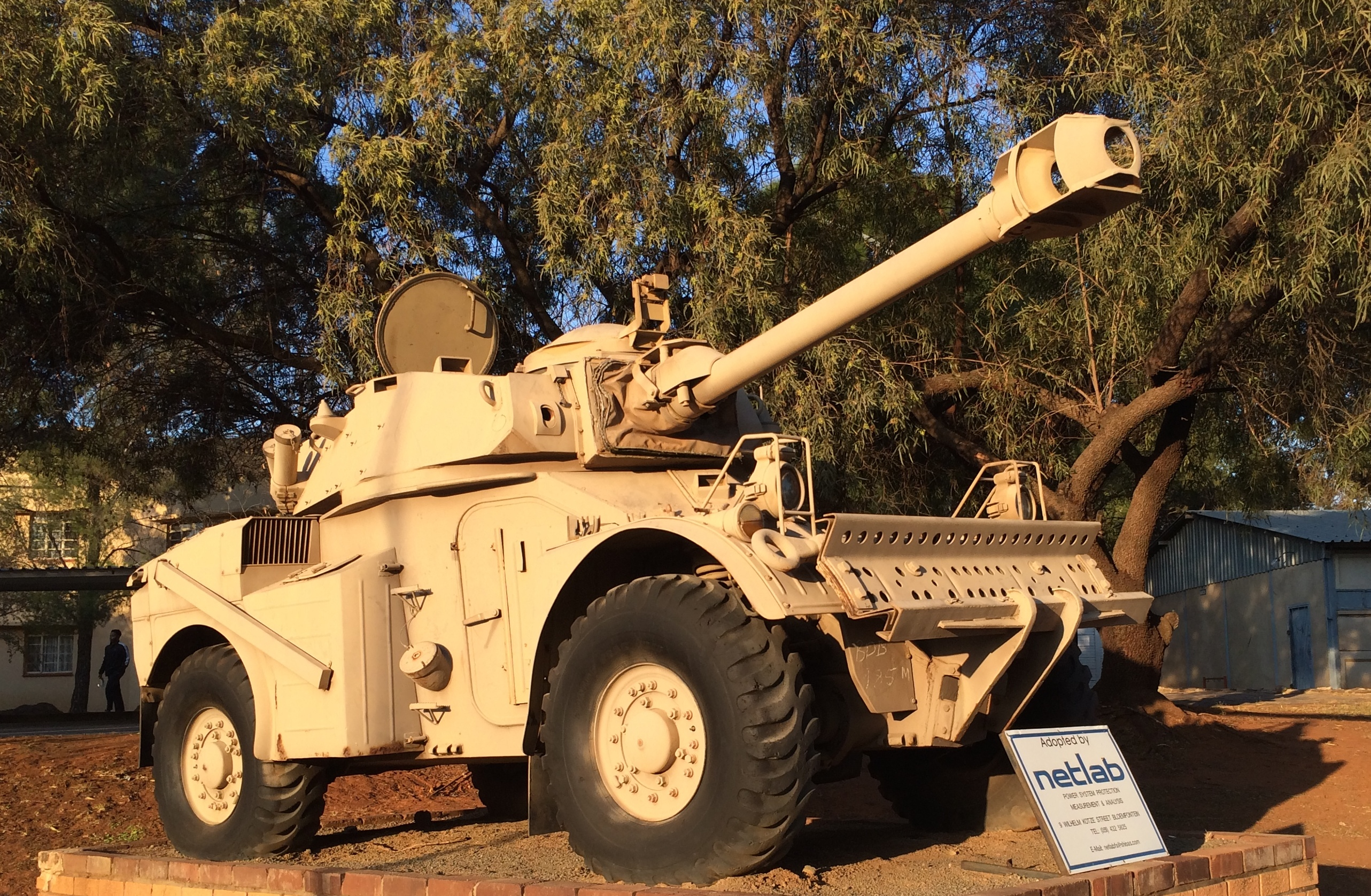 Description: An Eland Mk7 Armoured Car at 1 Tank Regiment, Tempe Base, Bloemfontein. 2014.